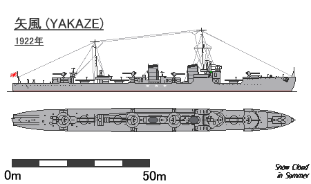 Figure of Japanese destroyer Yakaze (Minekaze-class) in 1922.